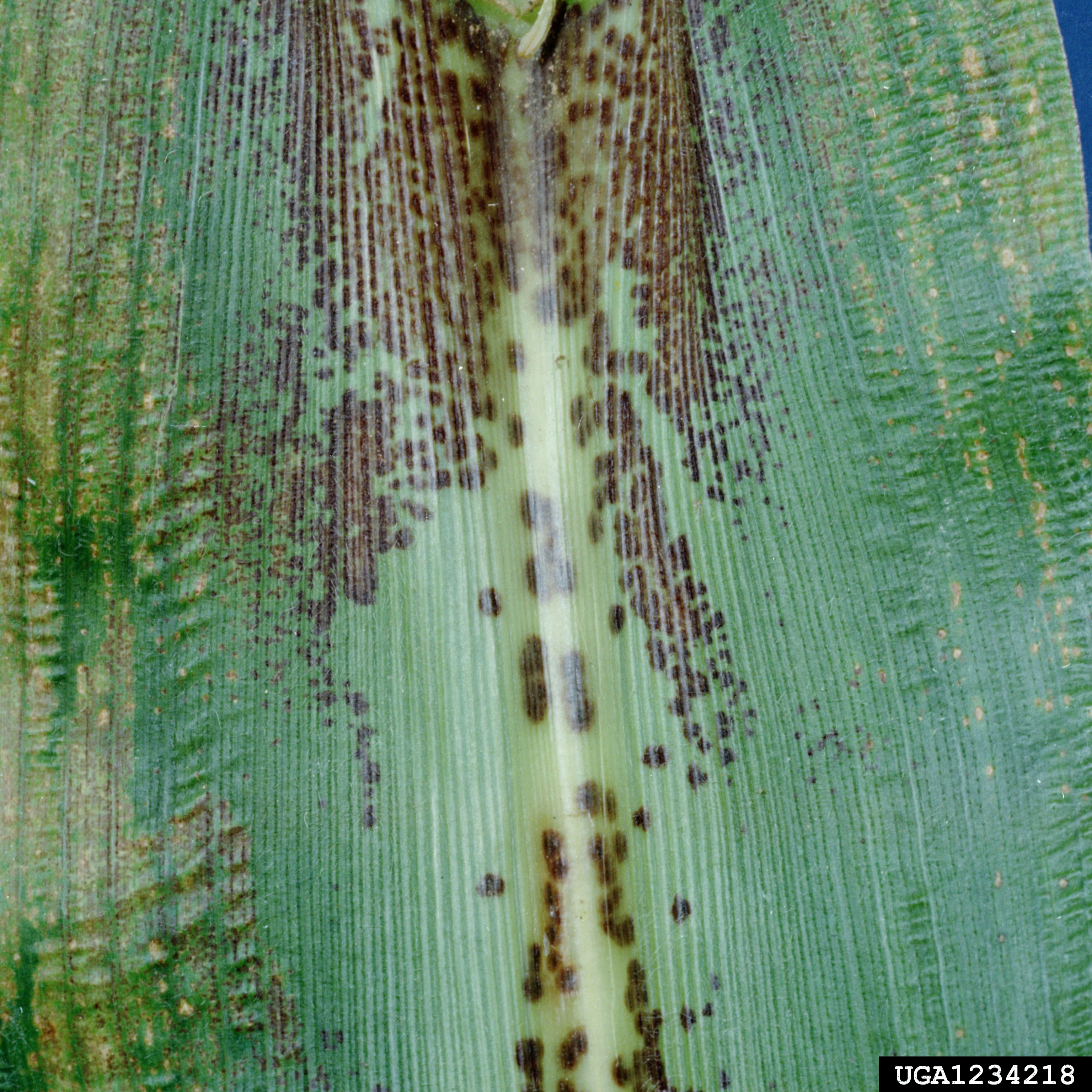 Maize leaf showing infection by Physoderma maydis